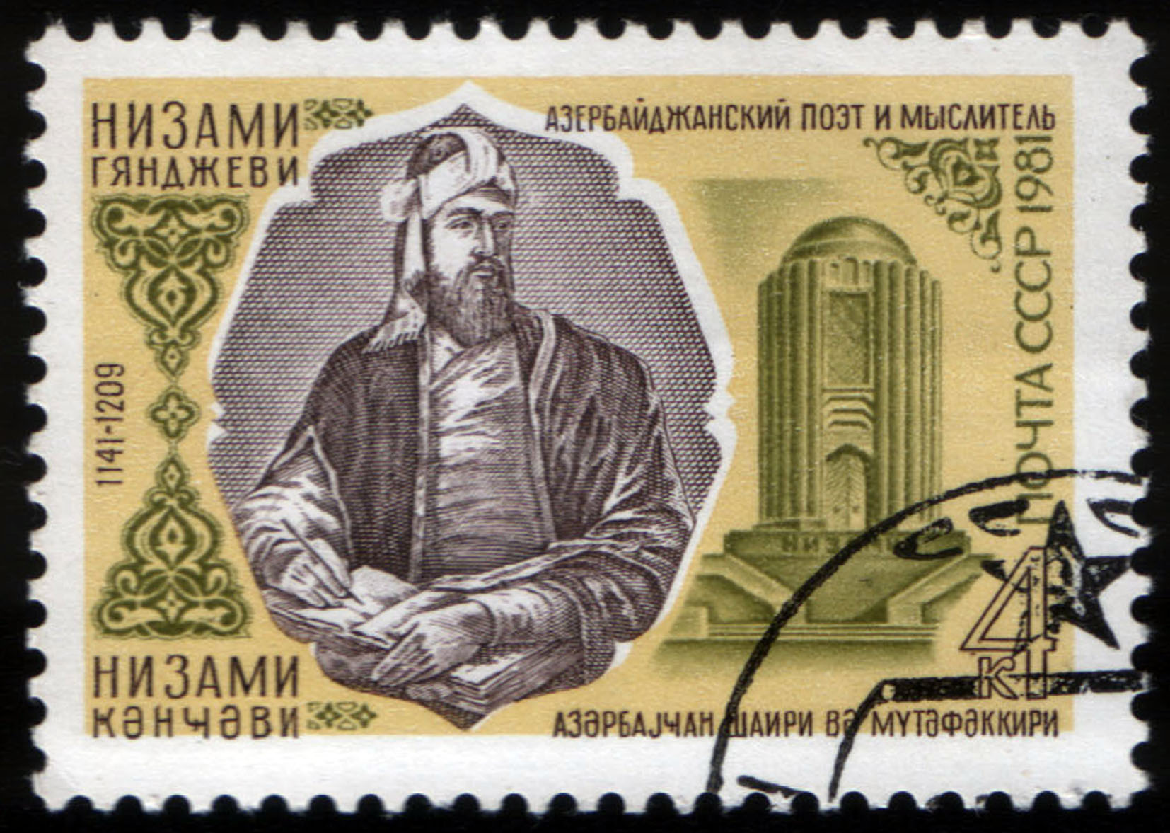 USSR stamp, Nezami, 1981, 4 k.